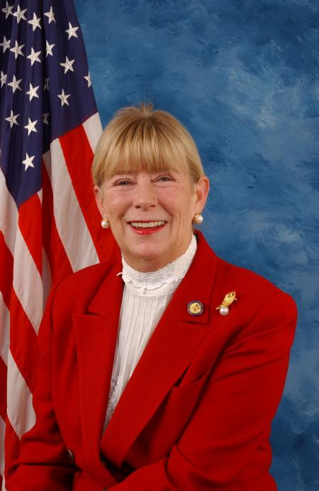 Carolyn McCarthy, member of the United States House of Representatives.